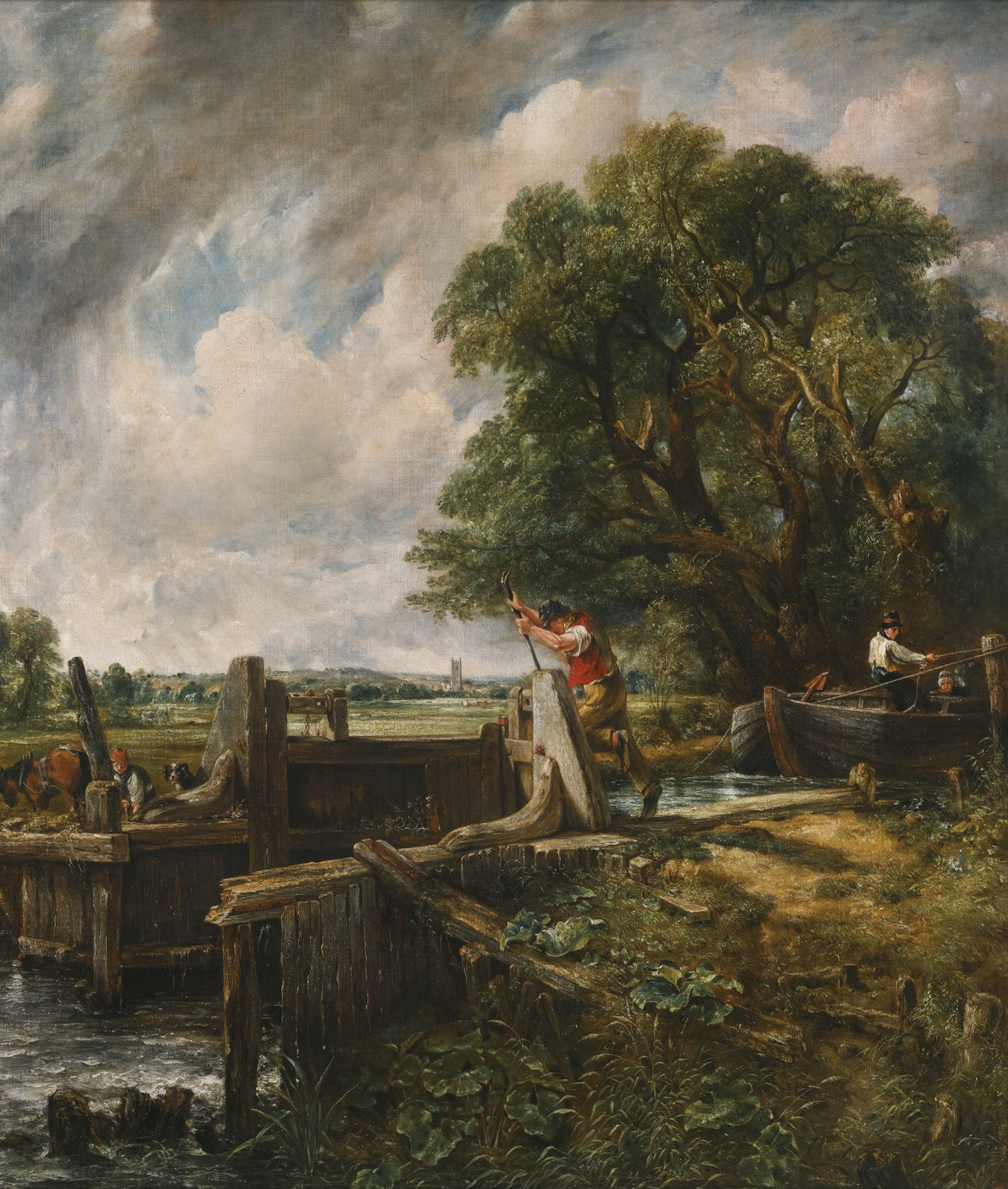 A view of Flatford Lock on the Stour river painted by John Constable, the second (Foster) version, in a private collection since 1855 and offered for sale at Sotheby's London 9 December 2015.